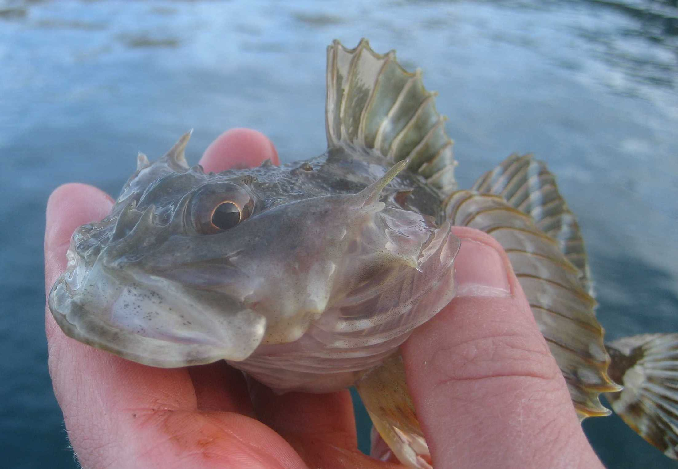 A small sculpin, (shorthorn) caught with hook and line near Nuuk, Greenland. Photo by Paul Cziko.